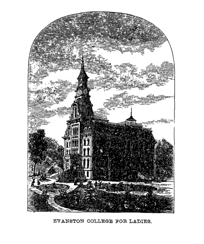 Depiction of the Evanston College for Ladies